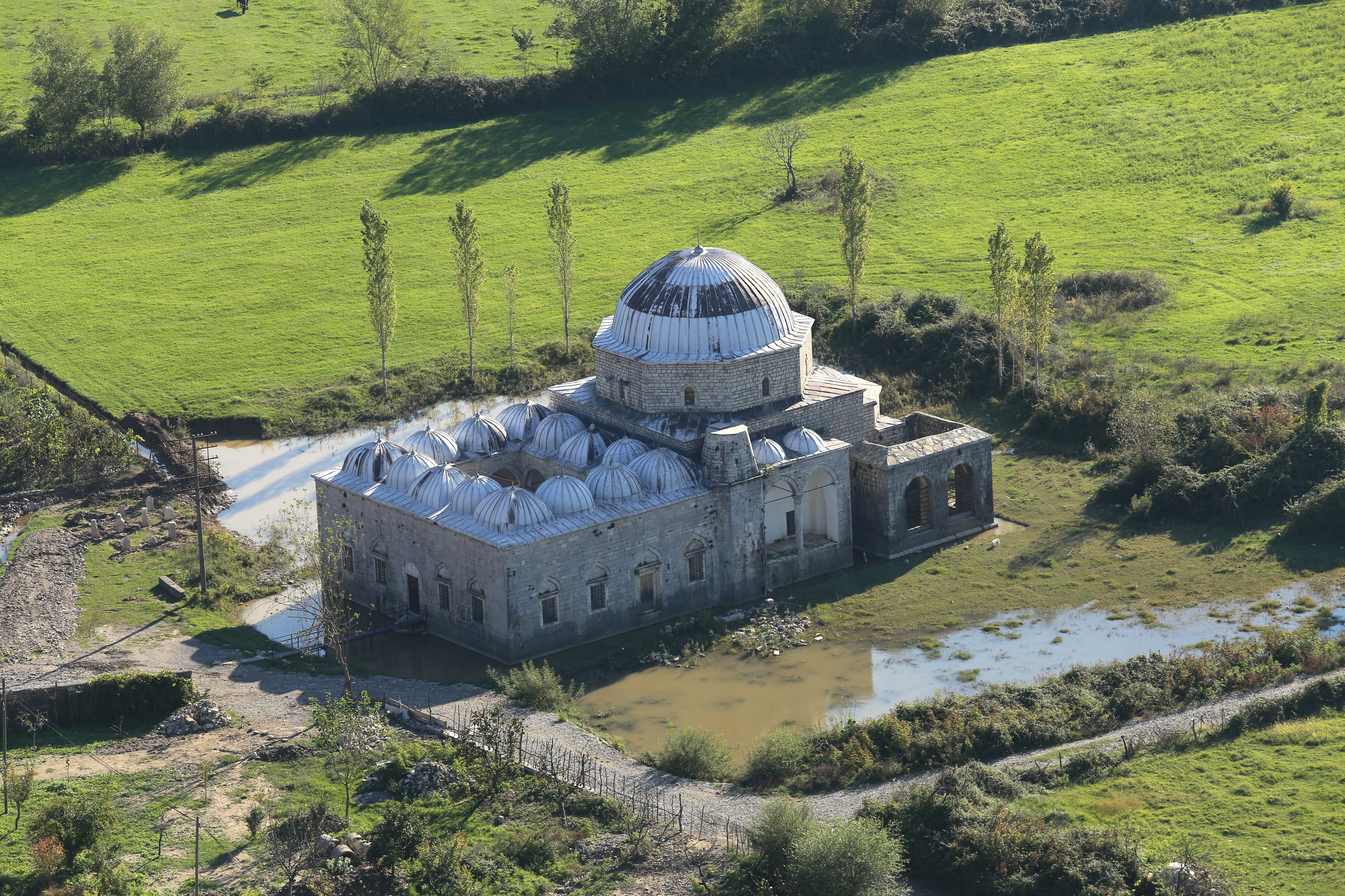 Lead Mosque, Shkodër